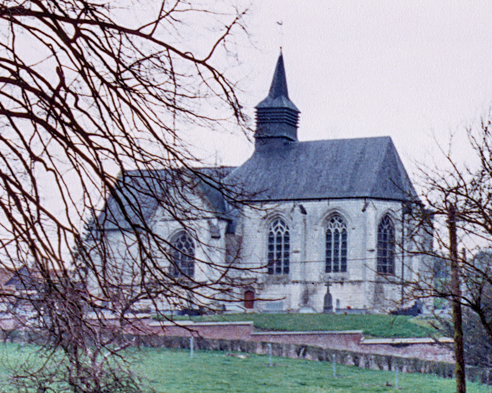 Church in Royon, Pas de Calais dep.